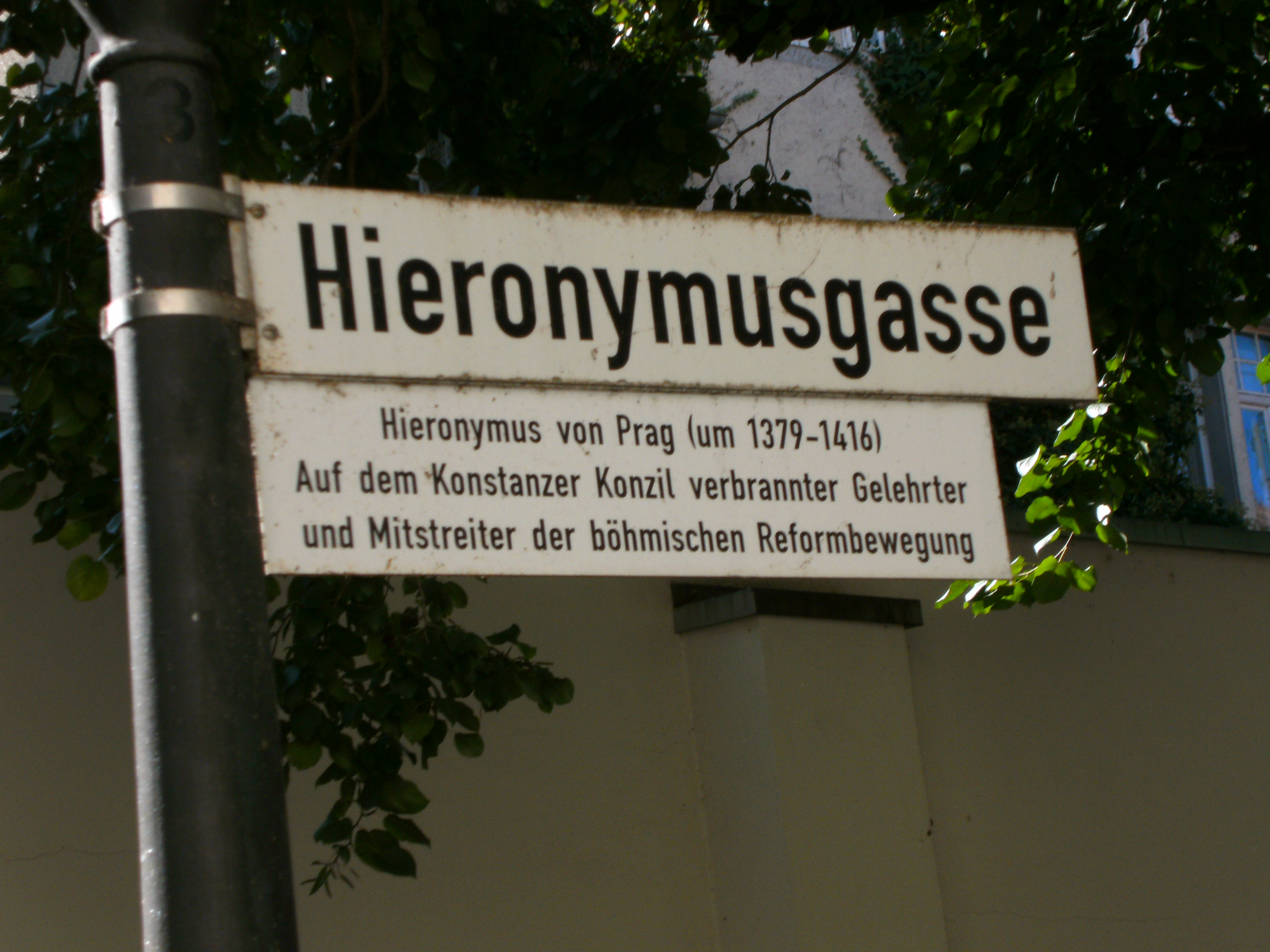 Konstanz, Germany, Hieronymusgasse: Street sign to remember Hieronymus von Prag.